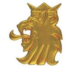 The beret slash of Finnish Rapid Deployment Force